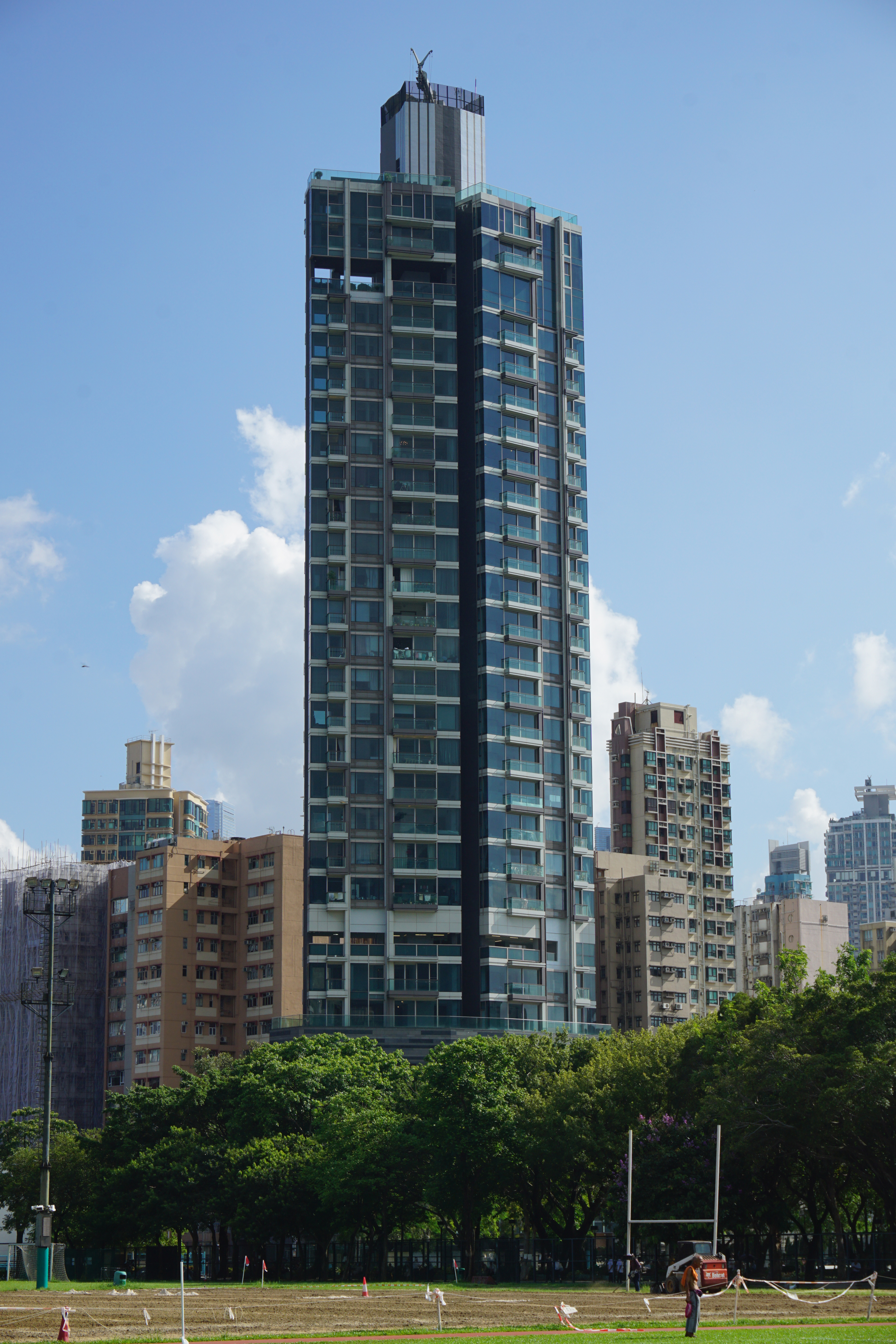 High Park Grand in Prince Edward, Hong Kong.